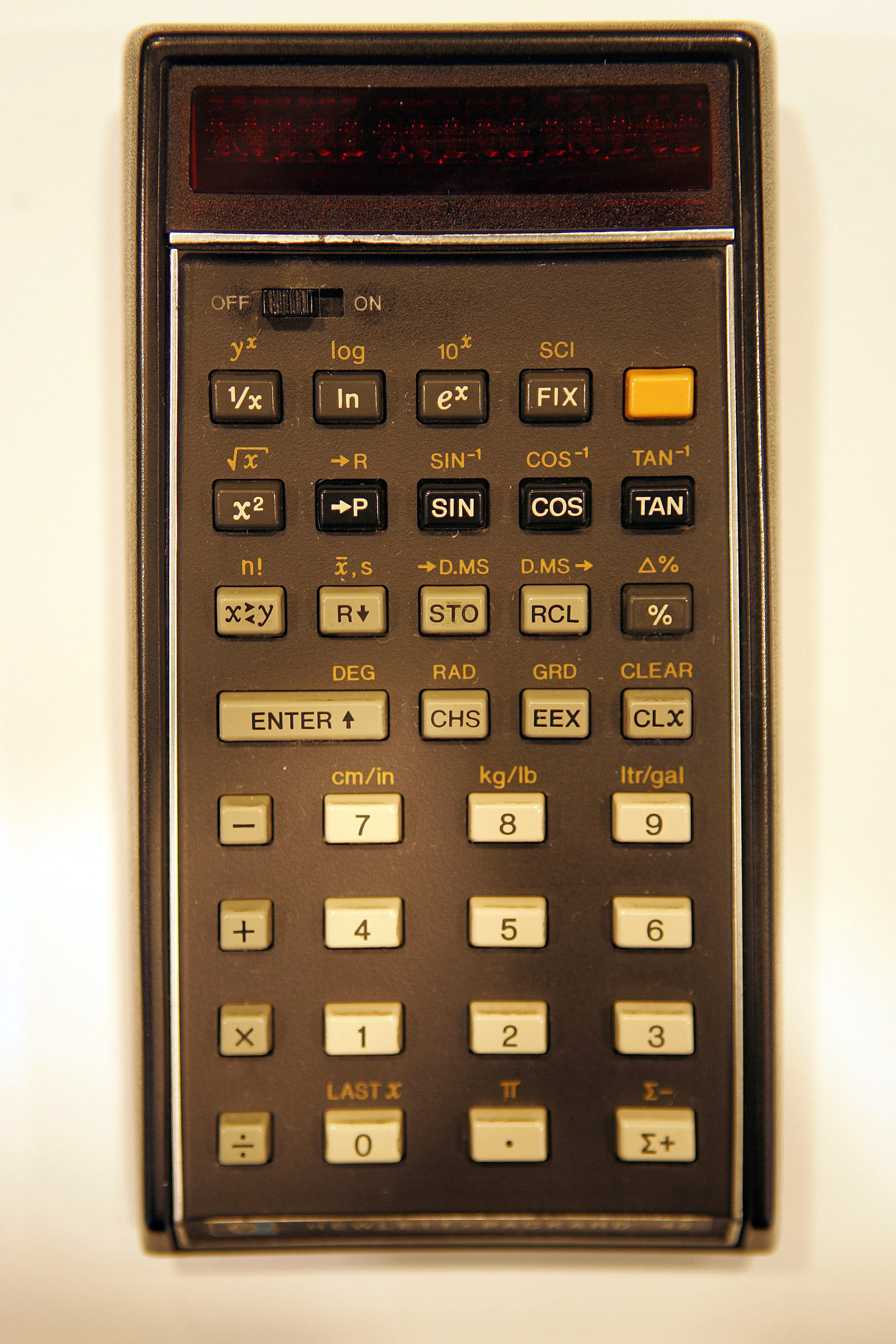 Hewlett-Packard HP-45 from 1973